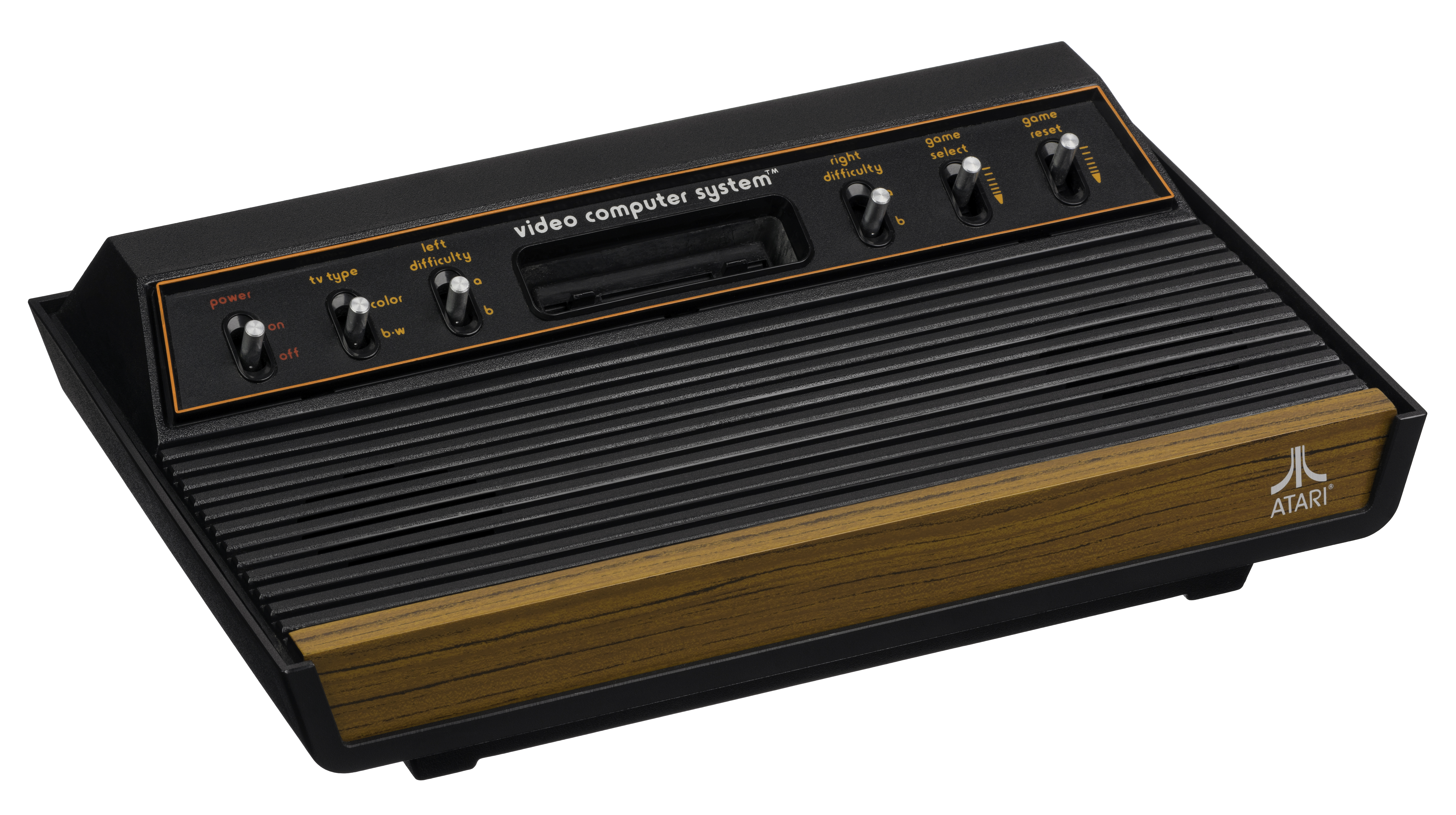 The Atari 2600, a video game console released by Atari in 1977. Originally called the Atari Video Computer System, the system was the most popular gaming console of the late '70s and early '80s. This model is the "Light Sixer", which is the second 2600 model that featured six front switches, and heavy metal RF shielding.